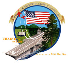 NAS Meridian Logo